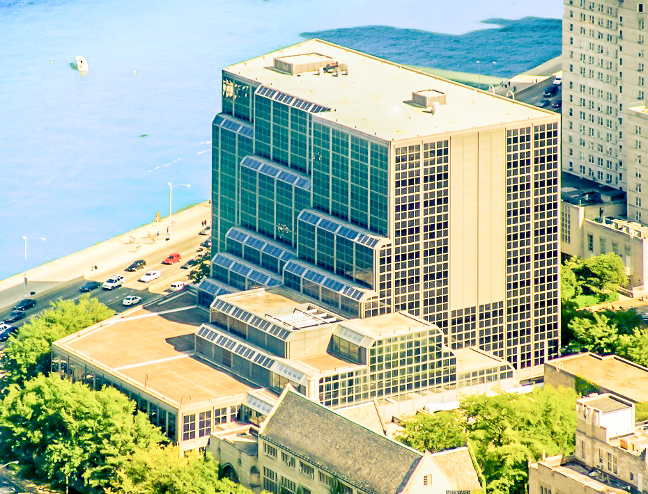 Aerial view of Northwestern Law's Rubloff building from the top of 222 E. Pearson Street, Chicago, IL 60611.